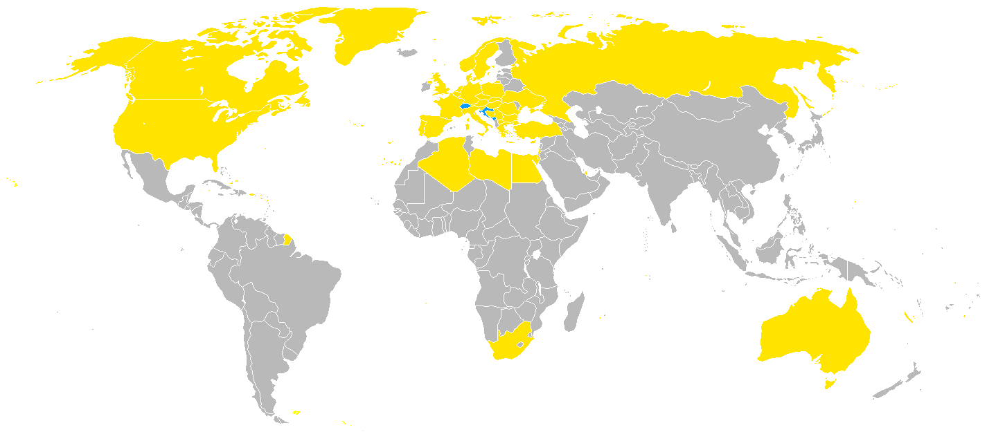 Serbian parliamentary election, 2008